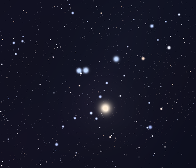 Pi Puppis Cluster, screenshot taken from Stellarium, a freeware astronomic simulation software.